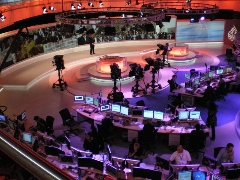 Al Jazeera English Doha Newsroom